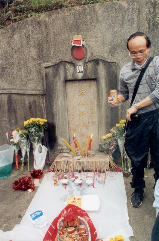 Yip Man gravestone, Wo Hop Shek, Hong Kong. Celebration, 2006.